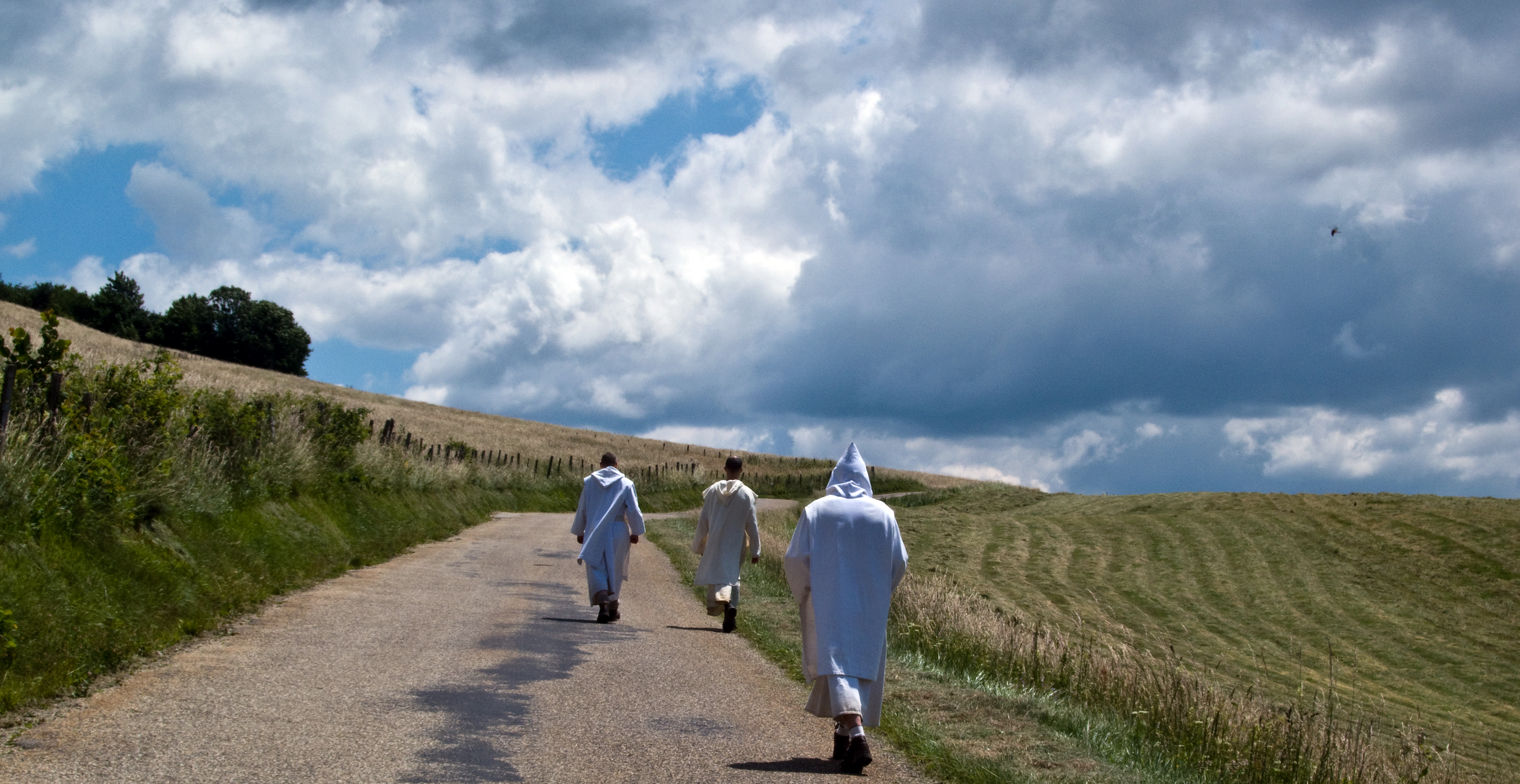 I believe these are monks from the nearby abbey Chartreuse de Portes. They kindly cheered me on when I passed.